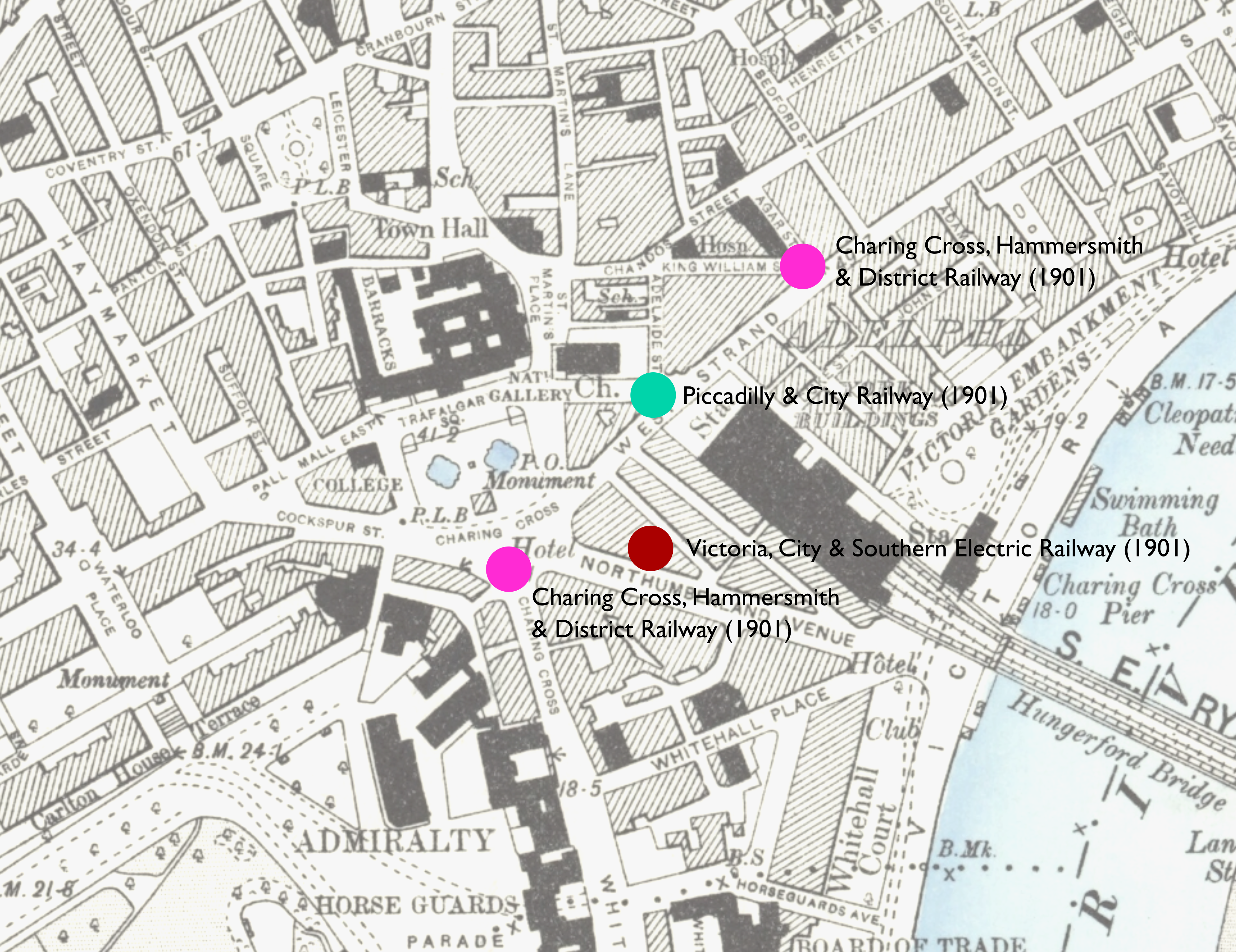 Map showing locations of stations proposed in 1901 in parliamentary bills for underground stations in the Charing Cross area.